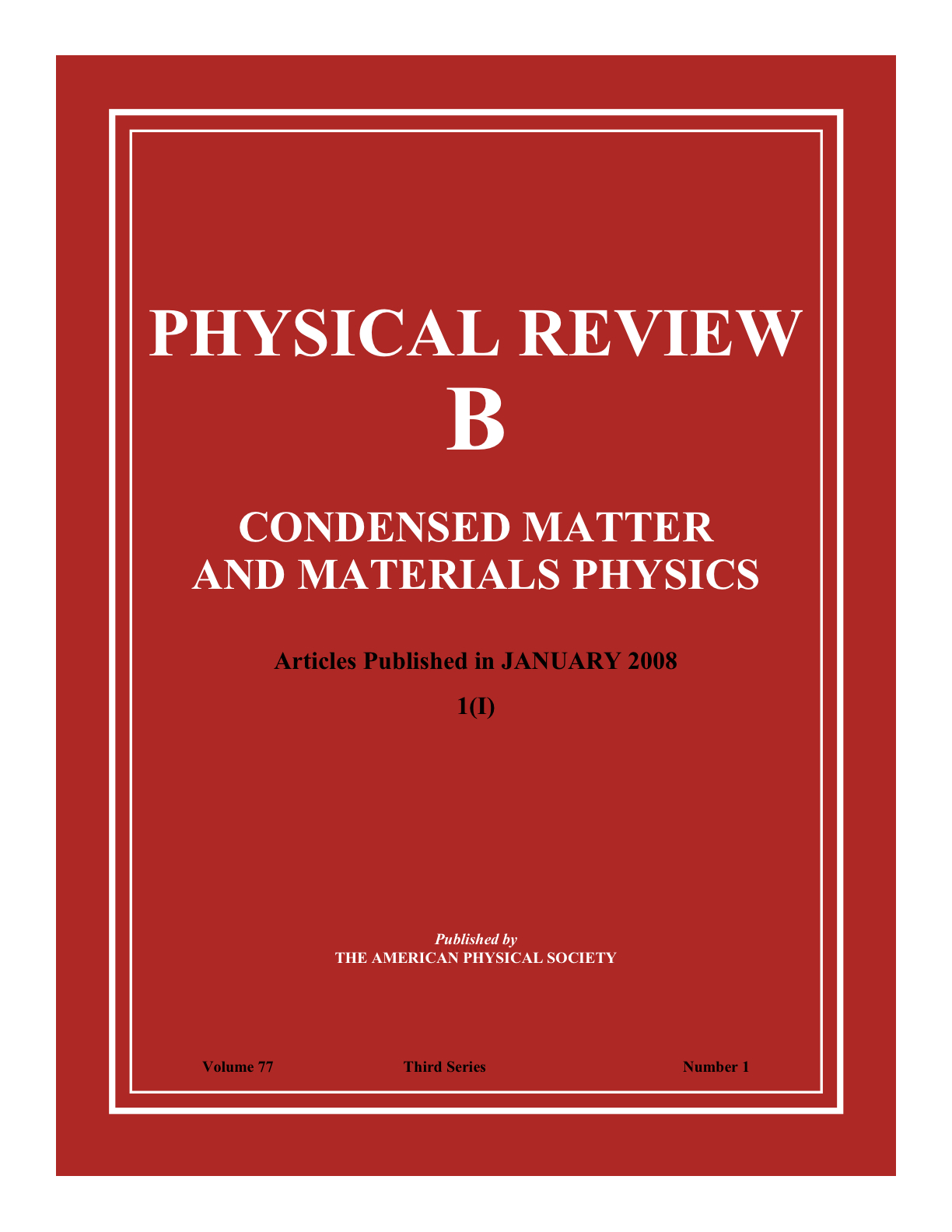 image of front cover of the journal Physical Review B, 2008